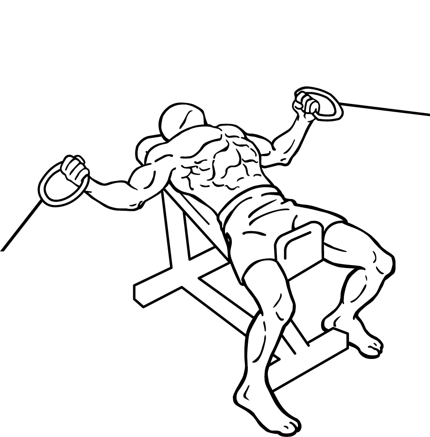 an exercise of chest